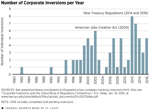 Graph from the Saint Louis Federal Reserve showing the two major waves of US corporate tax inversions from 1983 to 2016